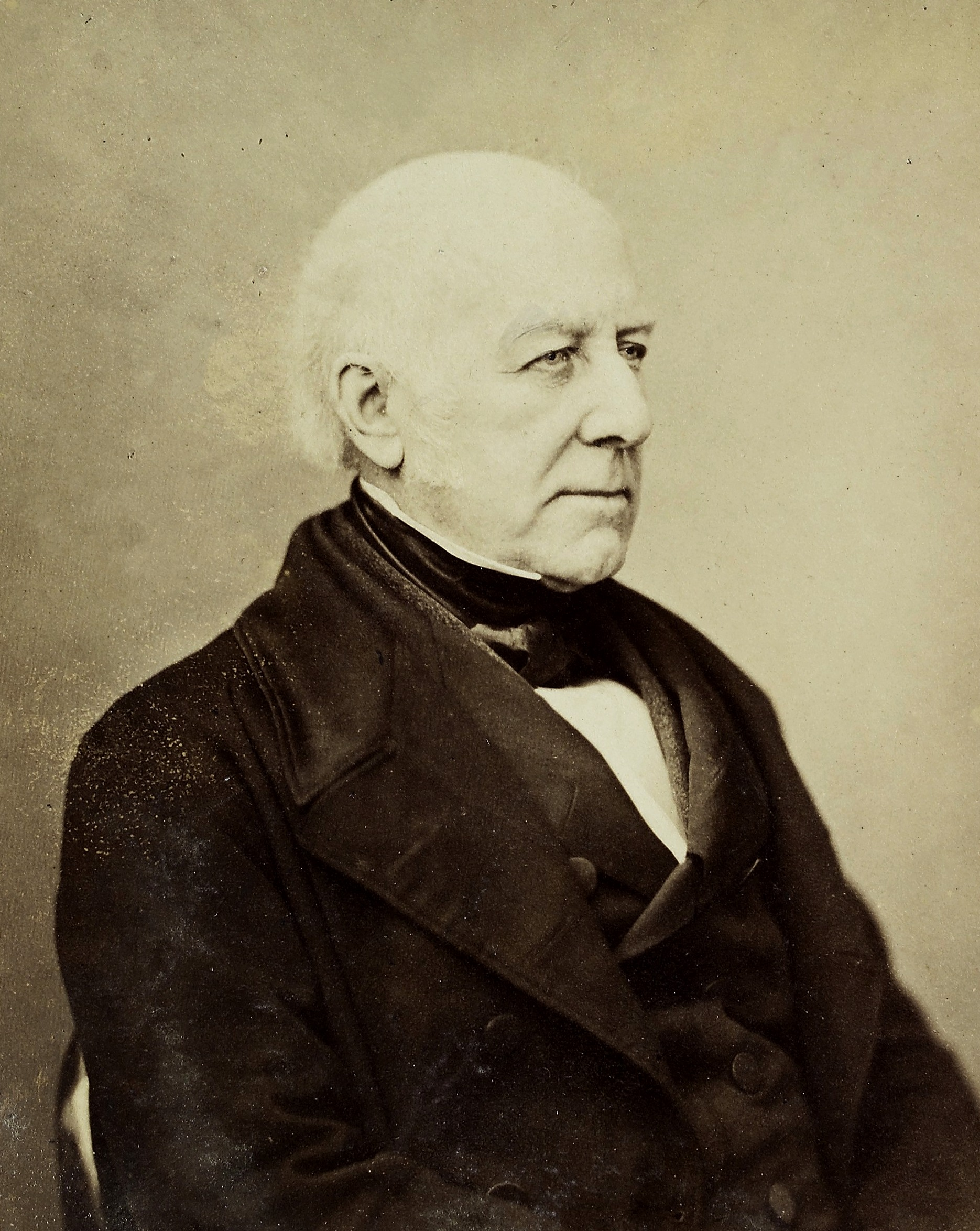 Sir Charles Mansfield Clarke, Bart. (d. Sep 7 1857) a member of the St. Albans Medical Club